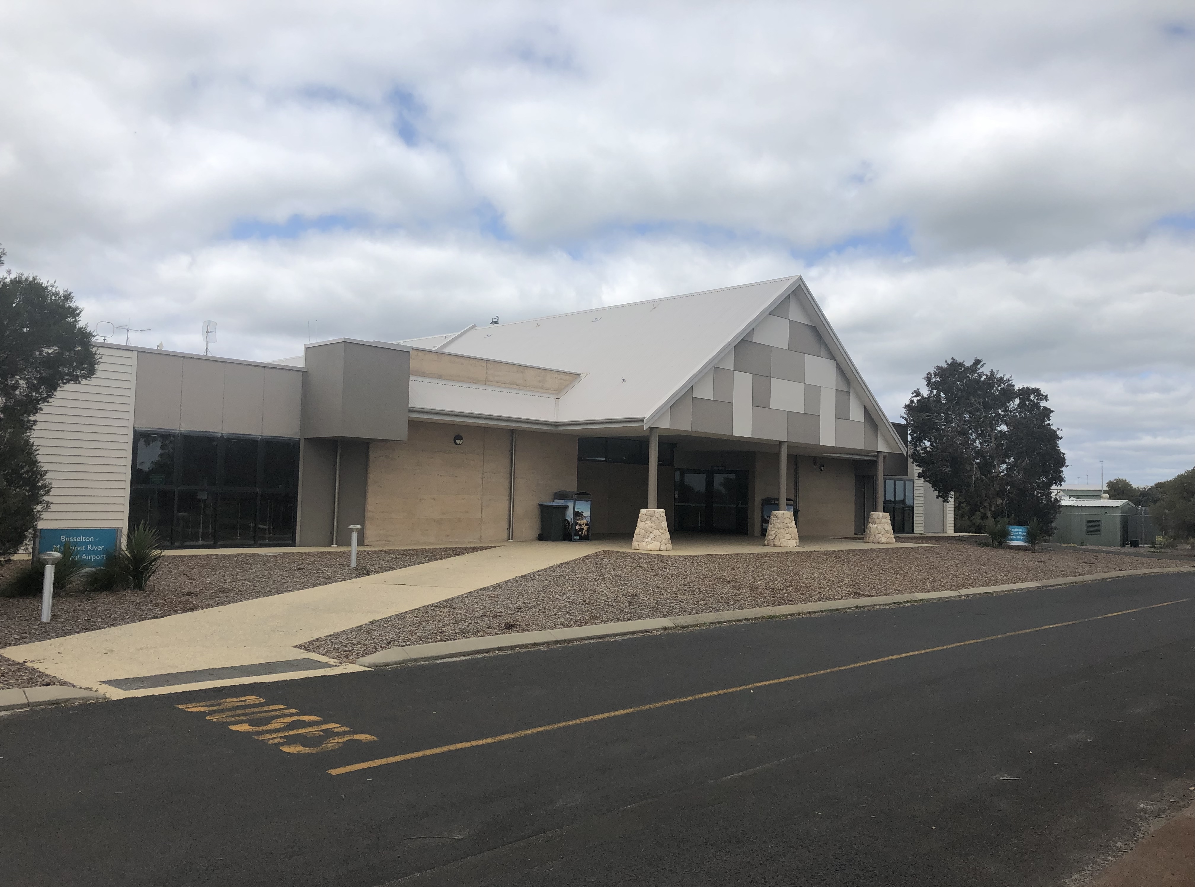 Busselton Margaret River Airport terminal facade and entrance to departures and arrivals